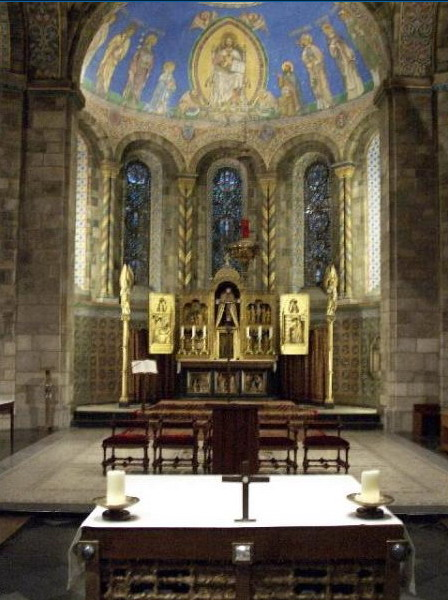 Interior of former abbey church of Rolduc (Kerkrade, Netherlands) in Mosan Romanesque style